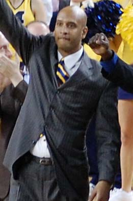 Former Michigan Wolverines basketball player Sean Higgins for the 20th anniversary of the team's 1989 National Championship Michigan vs. Ohio State, Crisler Arena, Ann Arbor, MI, January 17, 2009